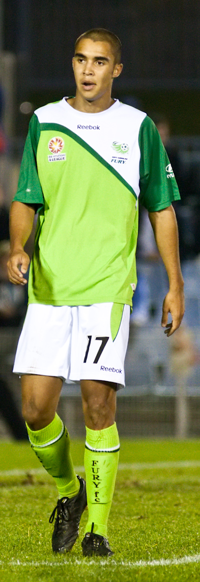 Osama Malik playing in a pre-season match for the North Queensland Fury against Sydney FC.